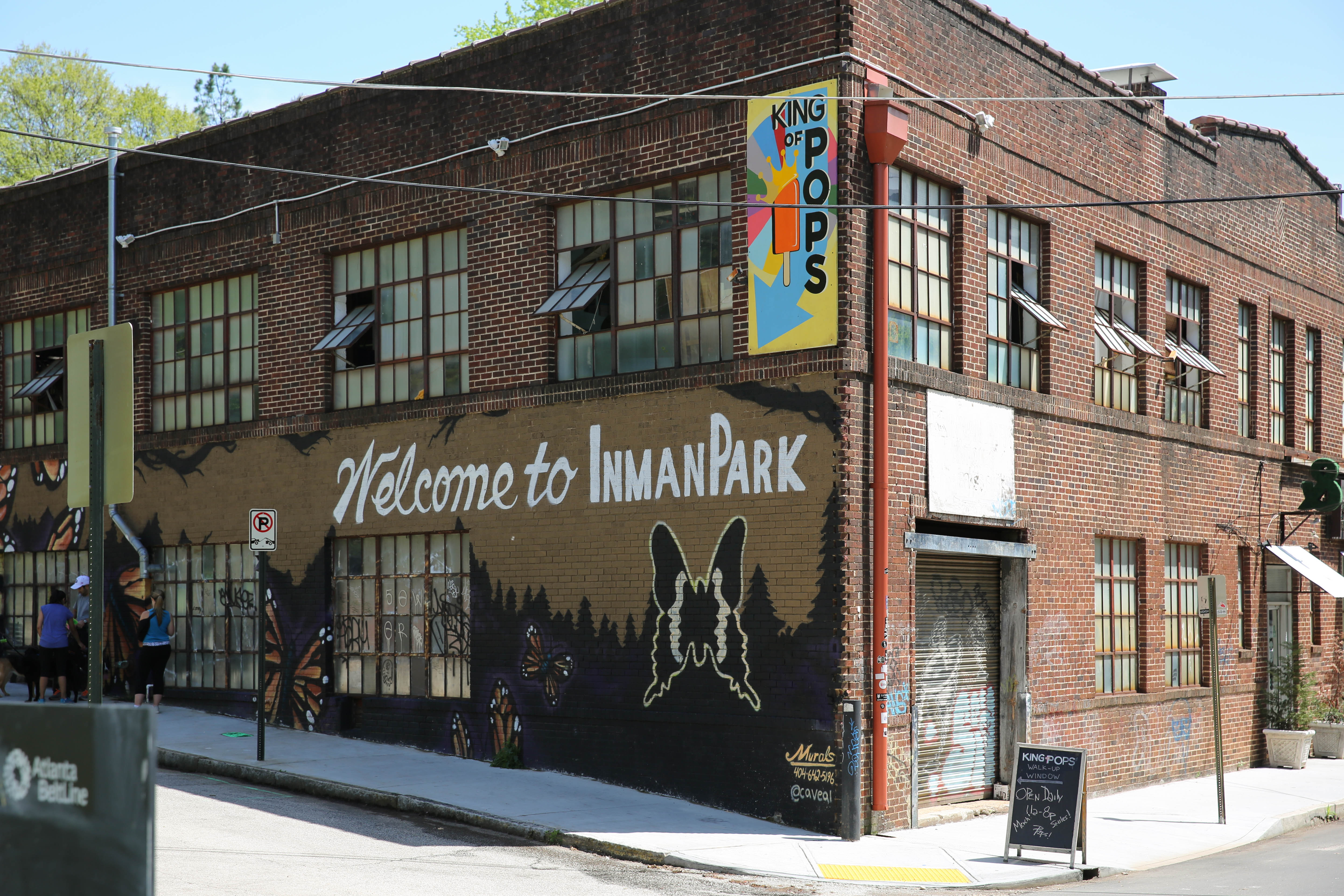 Love KoP, and the way their sign 'pops' off the building.